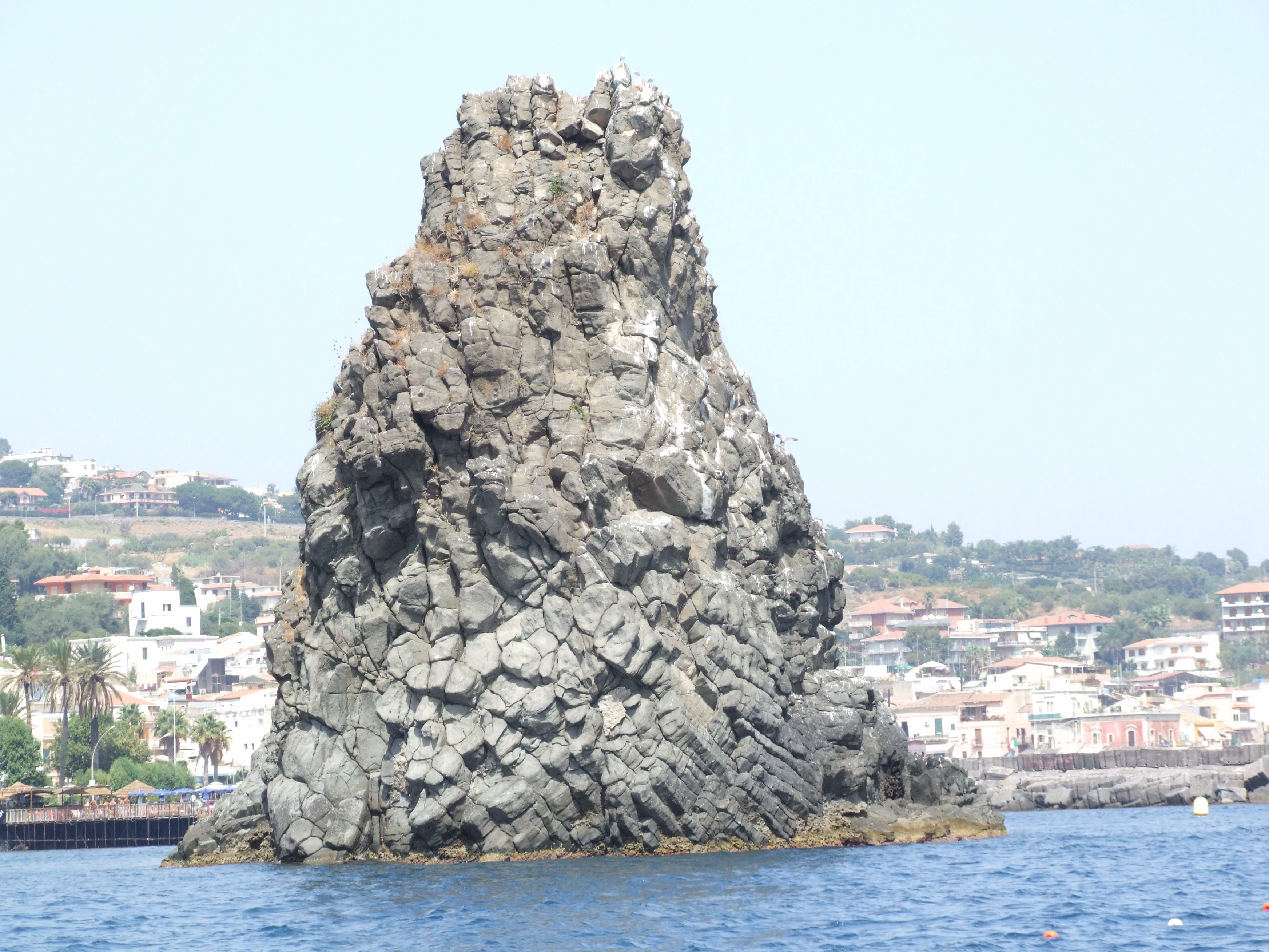 Faraglioni dei Ciclopi Aci Trezza Aci Castello Sicily Sicilia Italy Italia Castielli CC0